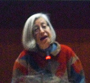 Patrizia Cavalli speaking at Galassia Gutenberg's book fair